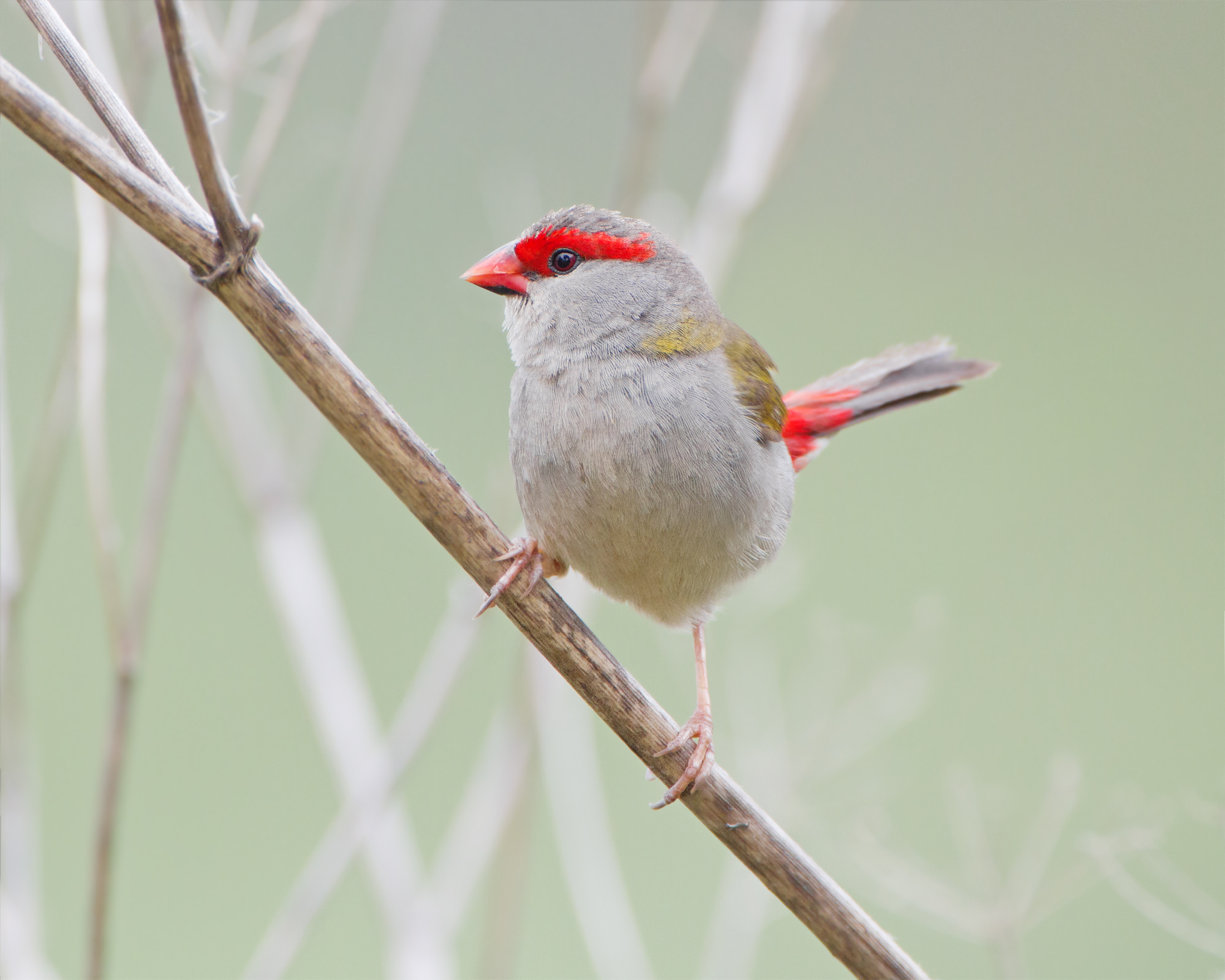 Red-browed Finch (Neochmia temporalis), Jerrabomberra Wetlands, Canberra, Australia